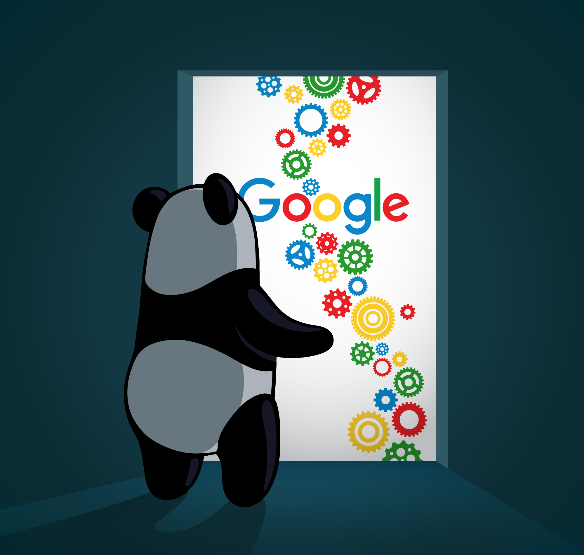 illustration of Google Panda. This images is related to the Google Panda Update